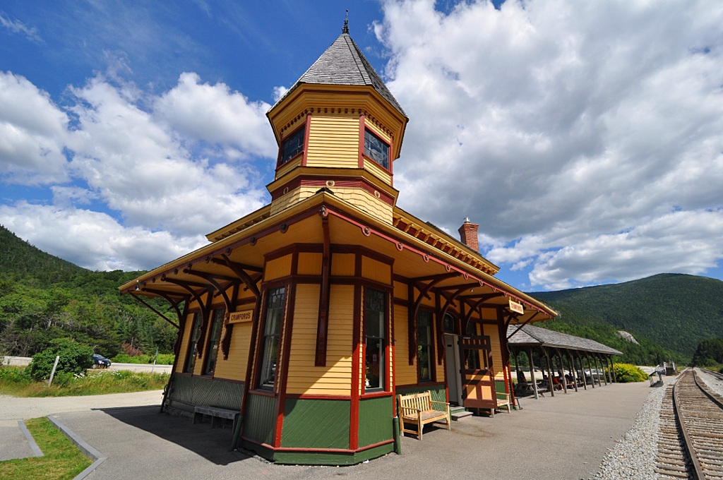 The Crawford Depot in Carroll, New Hampshire. This former train station (located on the former Maine Central Line at the top of Crawford Notch) is now an Appalachian Mountain Club visitor center and shop.